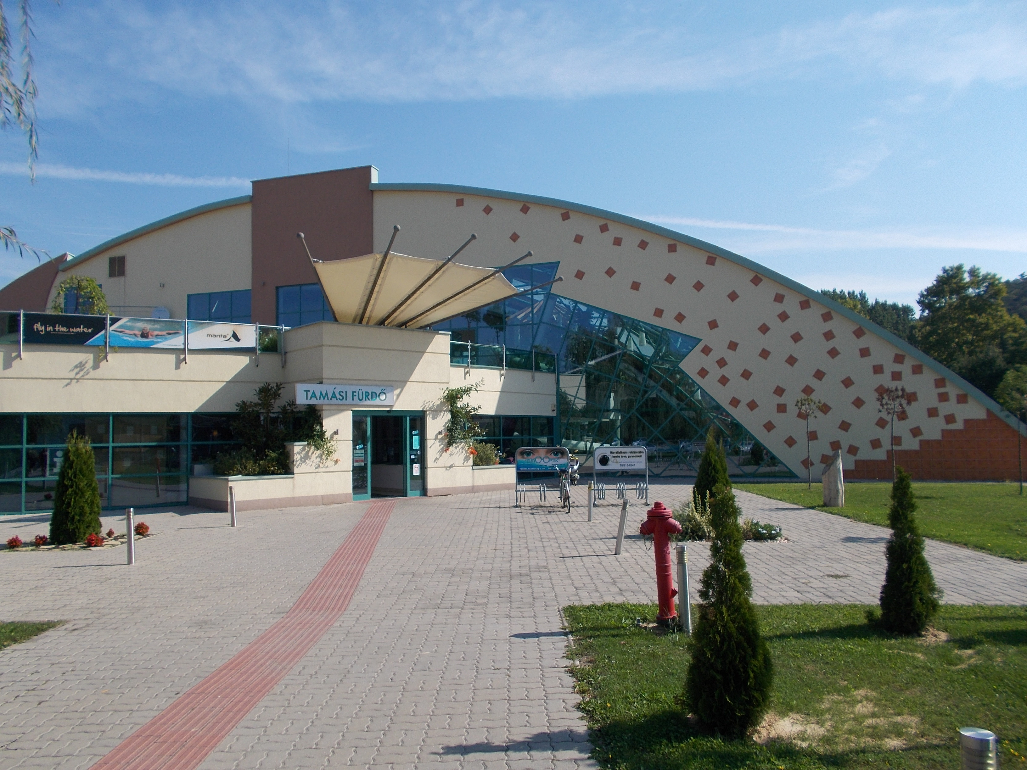 Tamási, Tolna County, Hungary